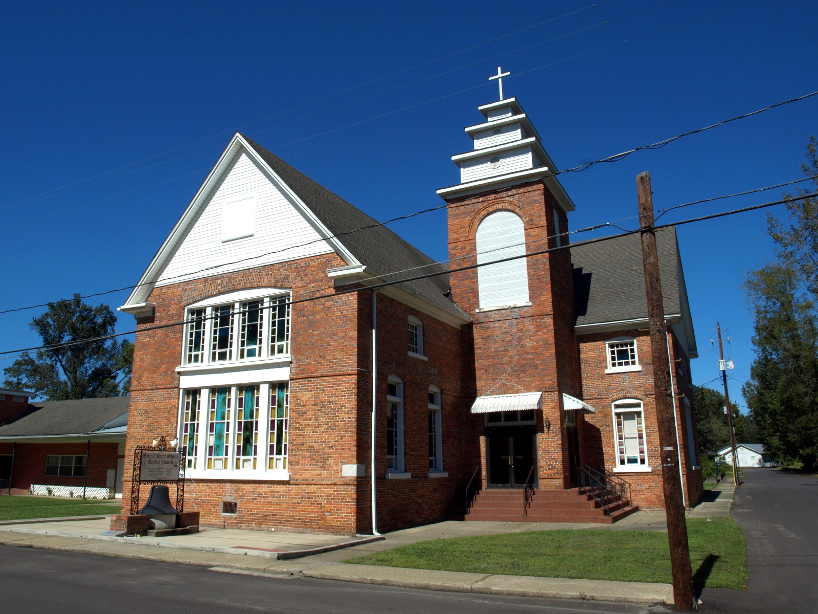 Second Saint Siloam Missionary Baptist Church in Brewton, Alabama, listed on the Alabama Register of Landmarks and Heritage